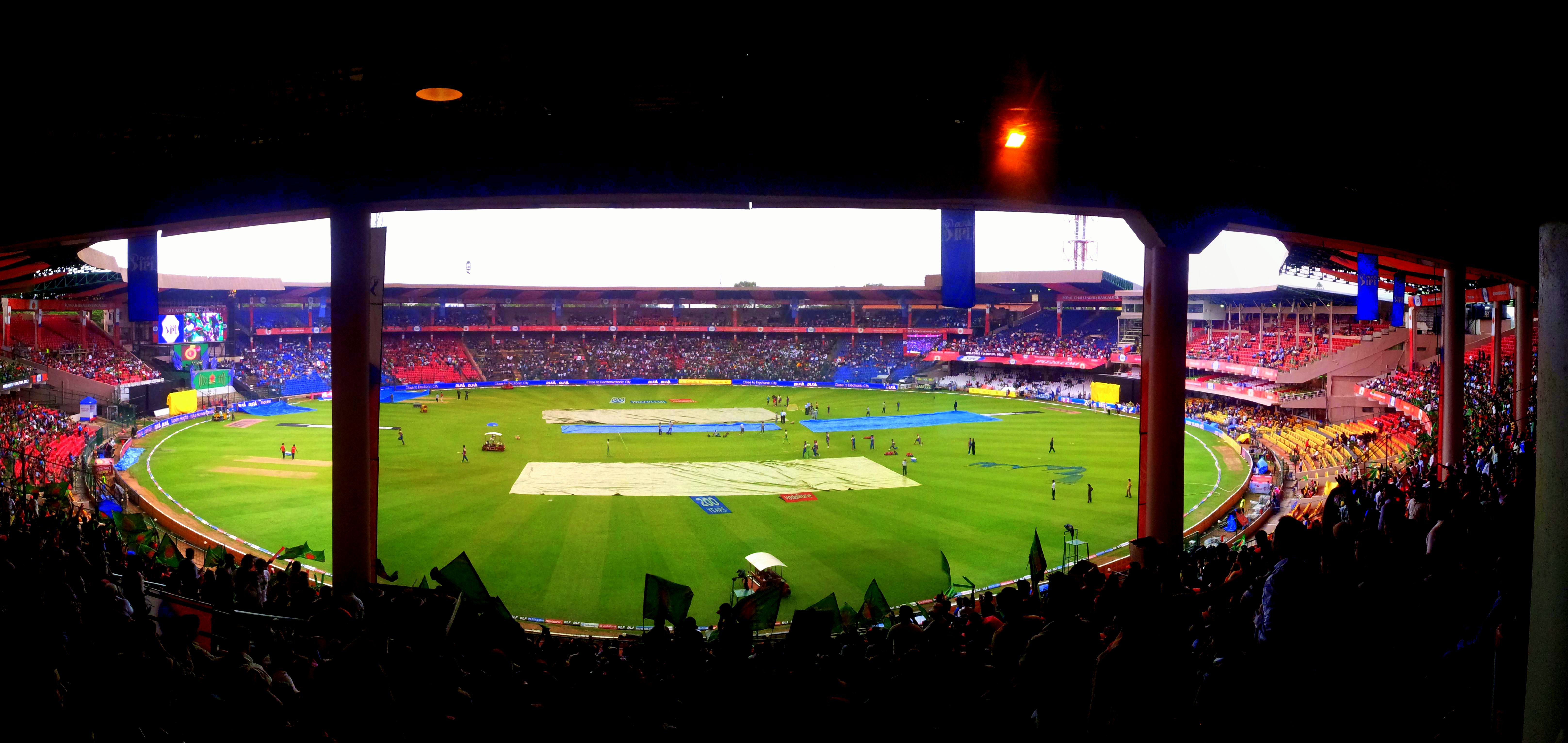 IPLT20 at the Chinnaswamy Stadium [MI vs RCB]